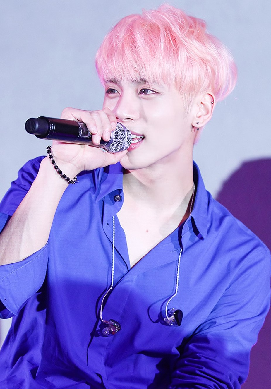 Jonghyun at Dazed x Boon The Shop Event on May 25, 2016.